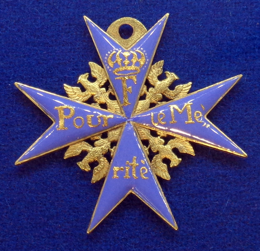 Pour le Mérite (Order For Merit), badge, 1780-1790. Kingdom of Prussia. The exhibition of the Tallinn Museum of Orders of Knighthood, Estonia.